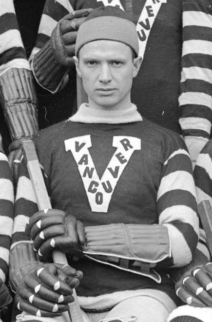 Hockey player Silas Griffis of the Vancouver Millionaires club. The picture is a crop out of a larger team photo taken in the 1913–14 PCHA season.